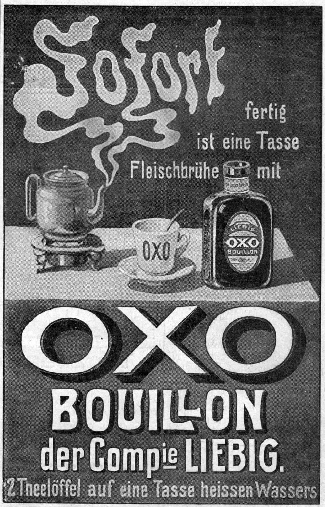 Advertisement for Oxo buillon by Liebig, Germany.